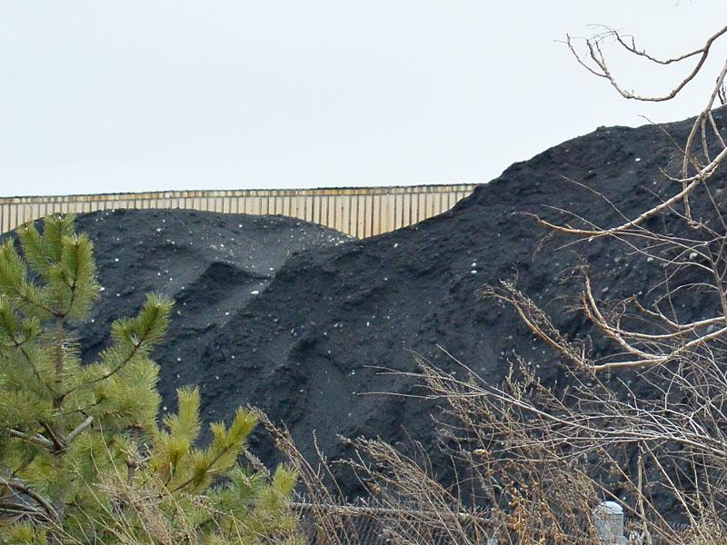 Close-up view of a pet coke pile on Chicago's south side. Taken from